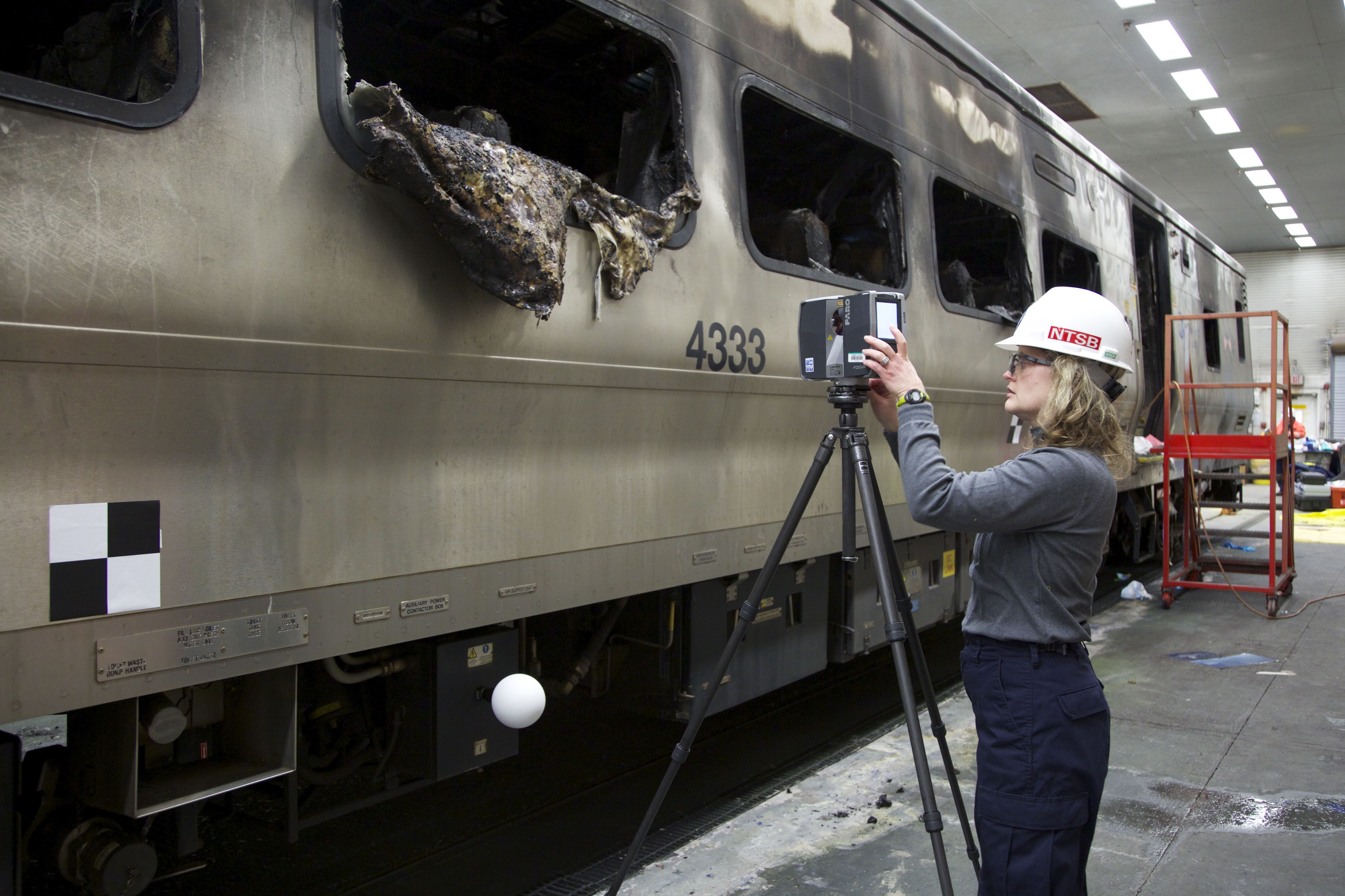 NTSB investigator Kristin Poland sets-up 3D Laser Scanner to create a virtual 3D model of the damaged rail car involved in Metro North accident.